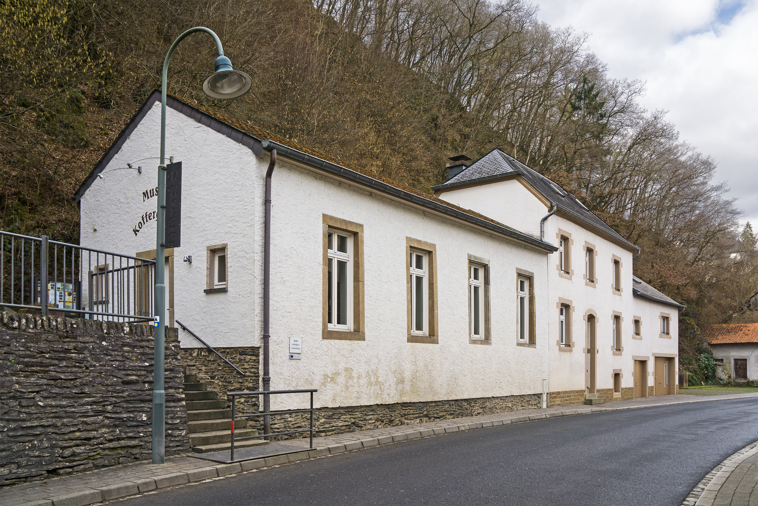 Copper mine museum in Stolzembourg